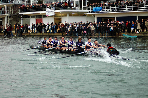 New College Boat Club in Torpids 2008 with broken rudder and bow blade